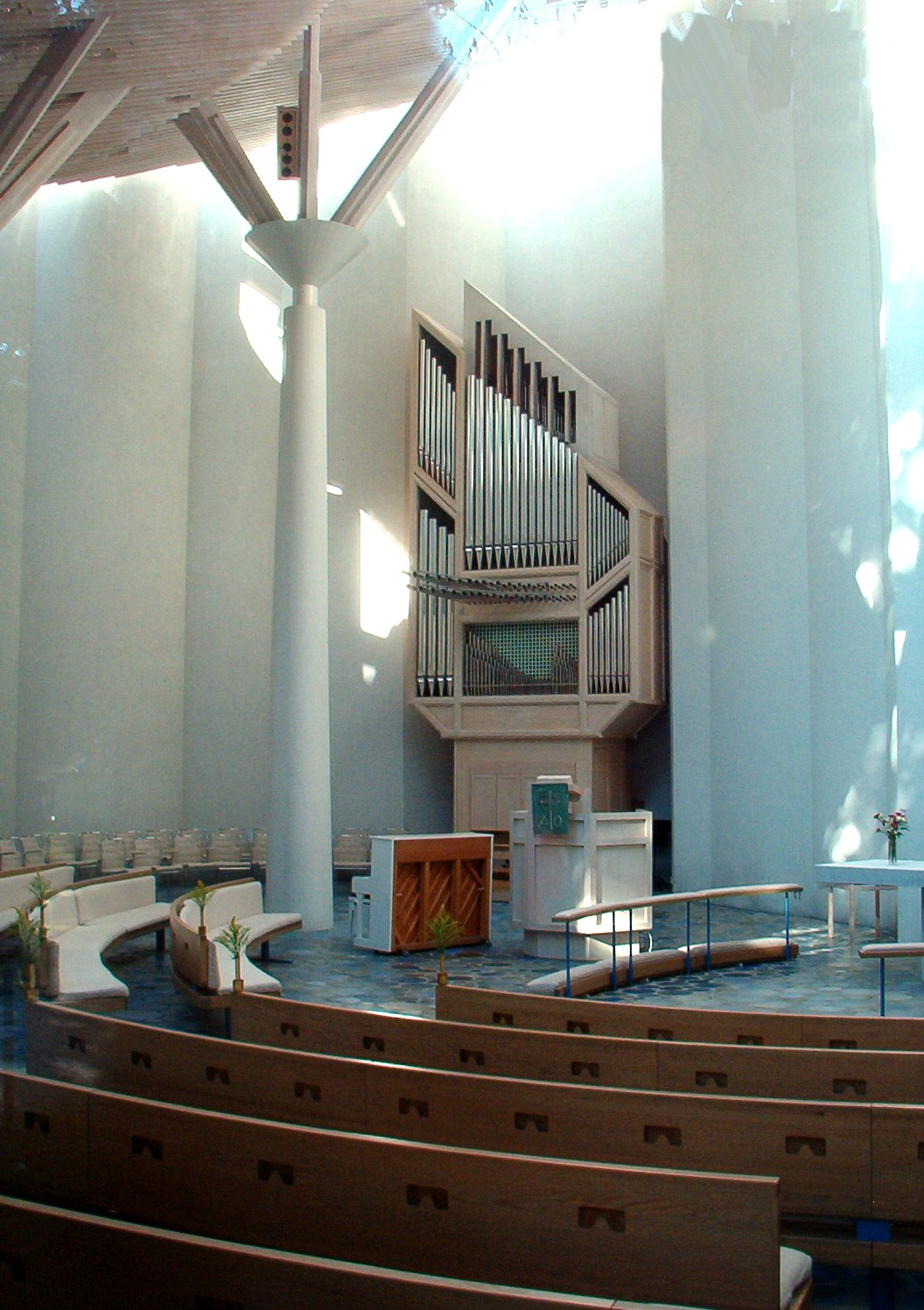 Interior of Saint Mathew Church in Malmö Date as of upload